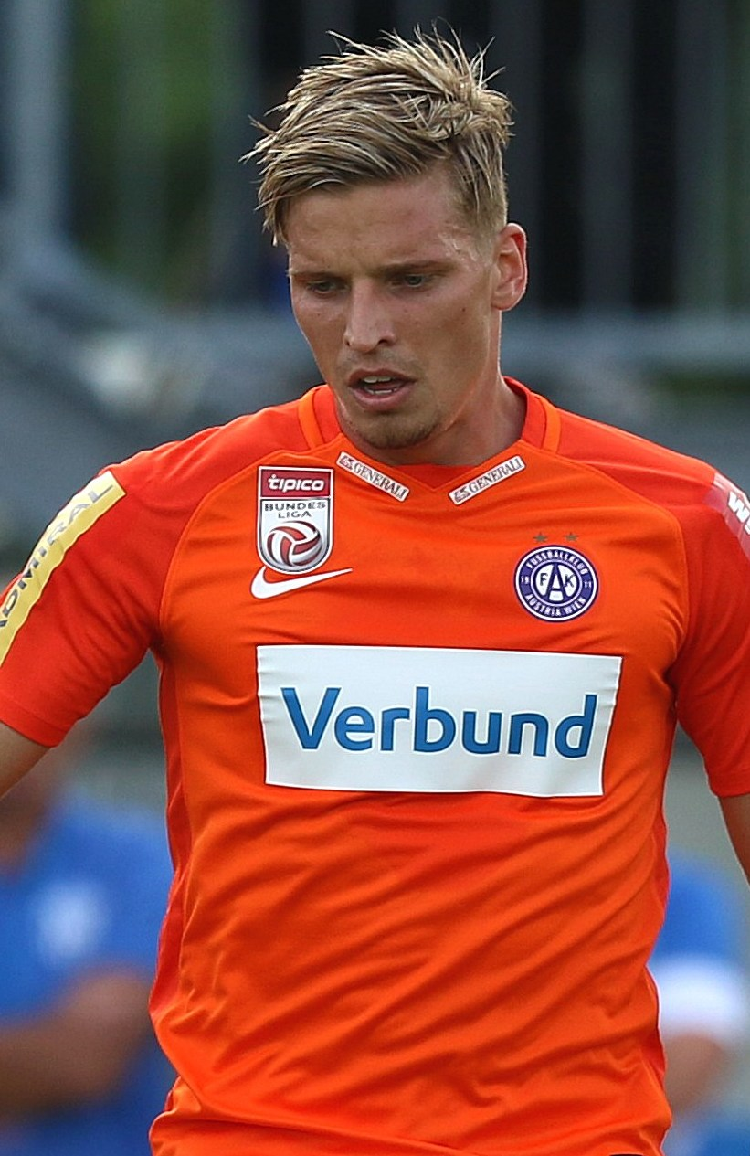 2017–18 Austrian Cup - ASK Ebreichsdorf (blue shirts) vs. FK Austria Wien (orange shirts) 0-0, penaltyscore 3-4. – The photo shows Jens Stryger Larsen